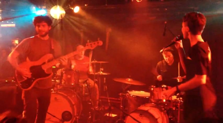 A screengrab from a video of Minneapolis-based band Poliça playing live in Vancouver in 2012.